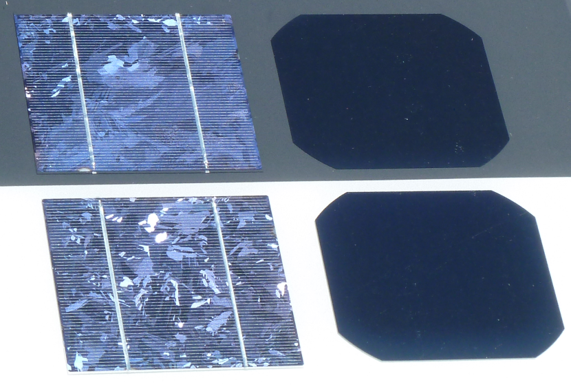 Comparison of crystalline solar cells. The ones on the left are made of multicrystalline (multi-Si), while the ones on the right are made of monocrystalline silicon (mono-Si).